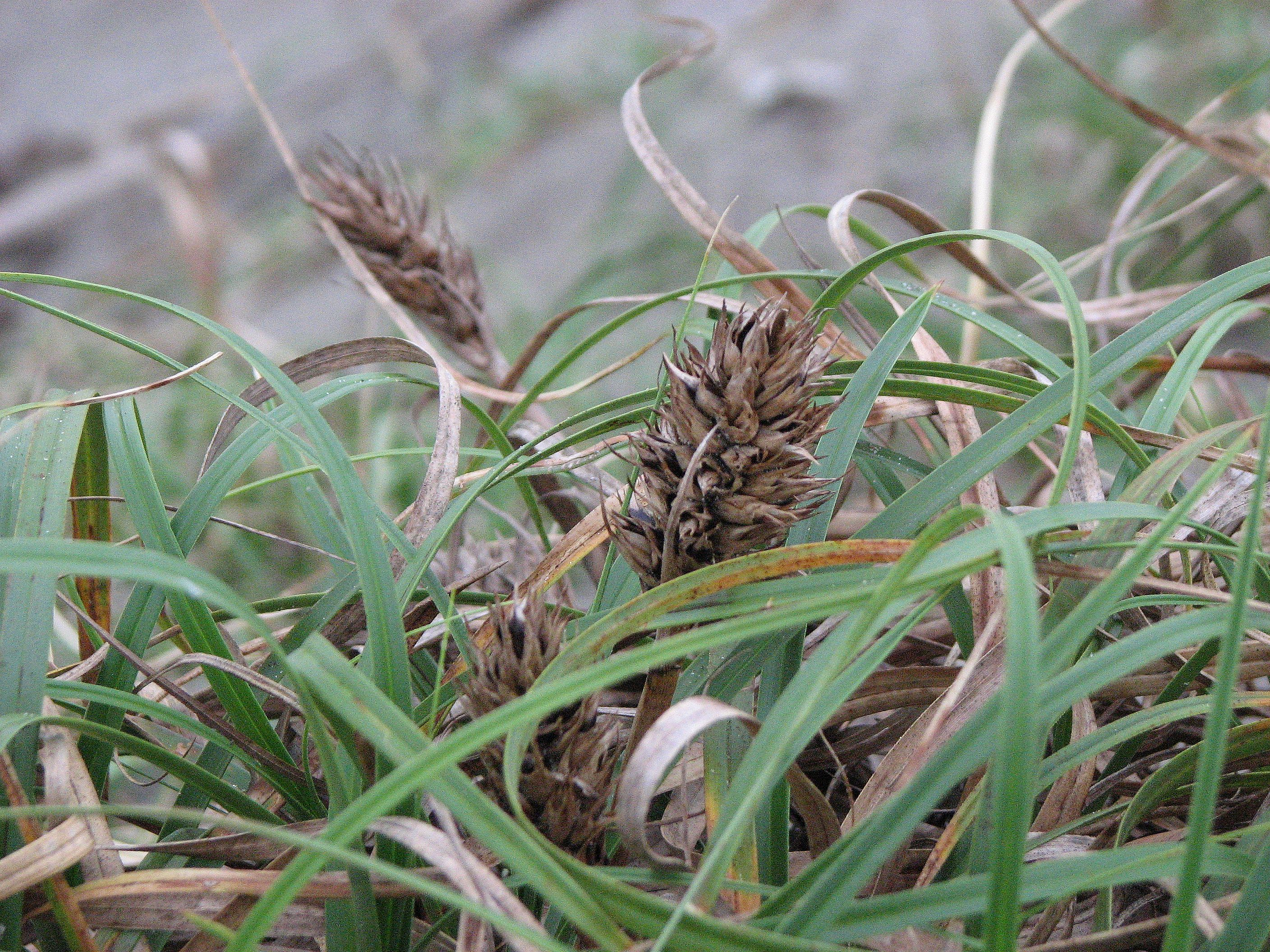 Carex kobomugi Ohwi at Futtsu city, Chiba Japan.